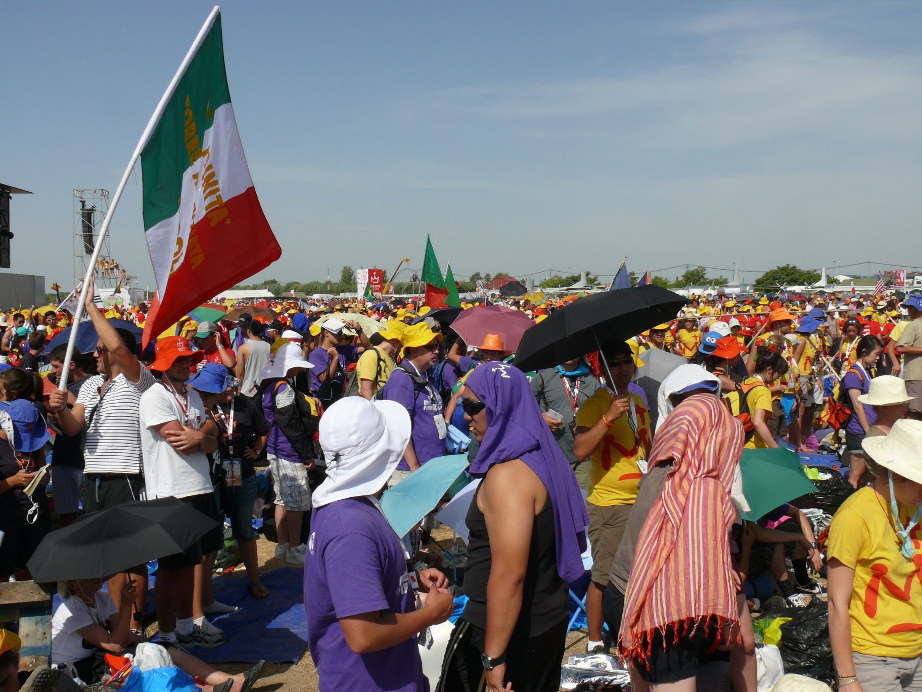 Pilgrims at Cuatro Vientos airport during the World Youth Day 2011 (Madrid, Spain).